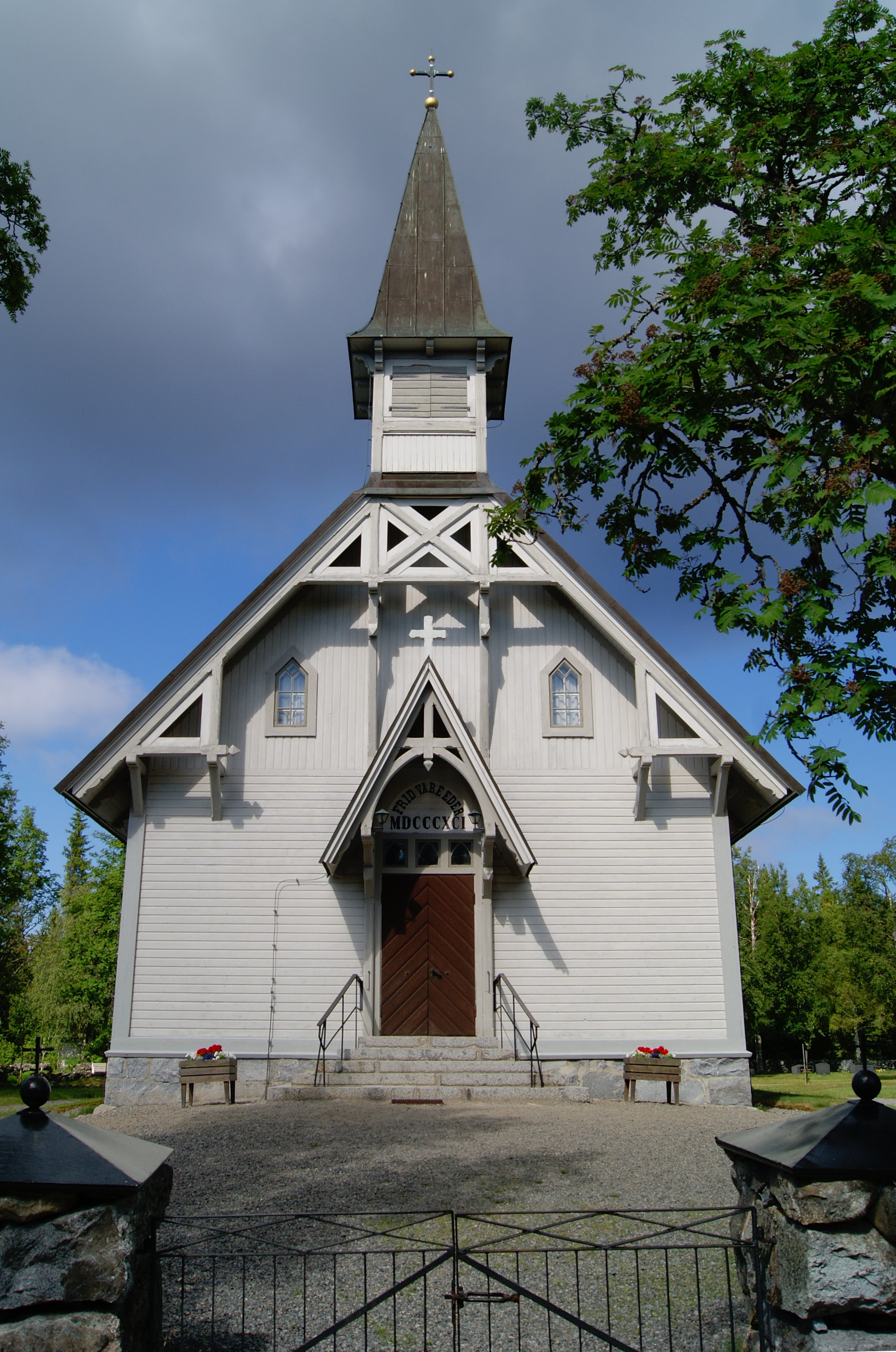 Holmön church.